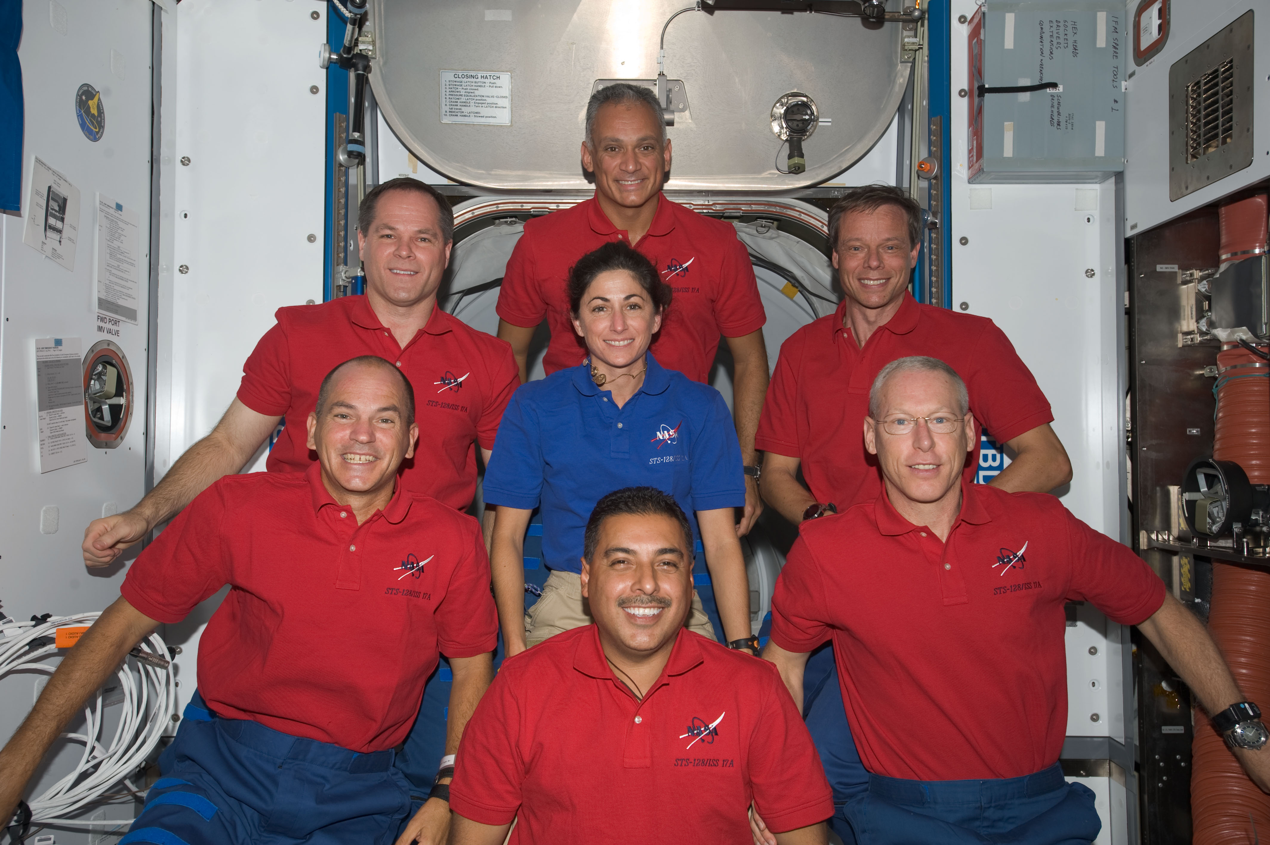 The STS-128 crewmembers found a few moments on a day between two spacewalk days to pose for some portraits on the International Space Station. Pictured on the front row, from the left, are astronauts Rick Sturckow, commander; Jose Hernandez and Patrick Forrester, both mission specialists. In the middle of the "clock" arrangement is astronaut Nicole Stott, an Expedition 20 flight engineer who came up to the orbital outpost with this crew. In the back, from left, are astronauts Kevin Ford, pilot, and John "Danny" Olivas, with European Space Agency astronaut Christer Fuglesang, both mission specialists.